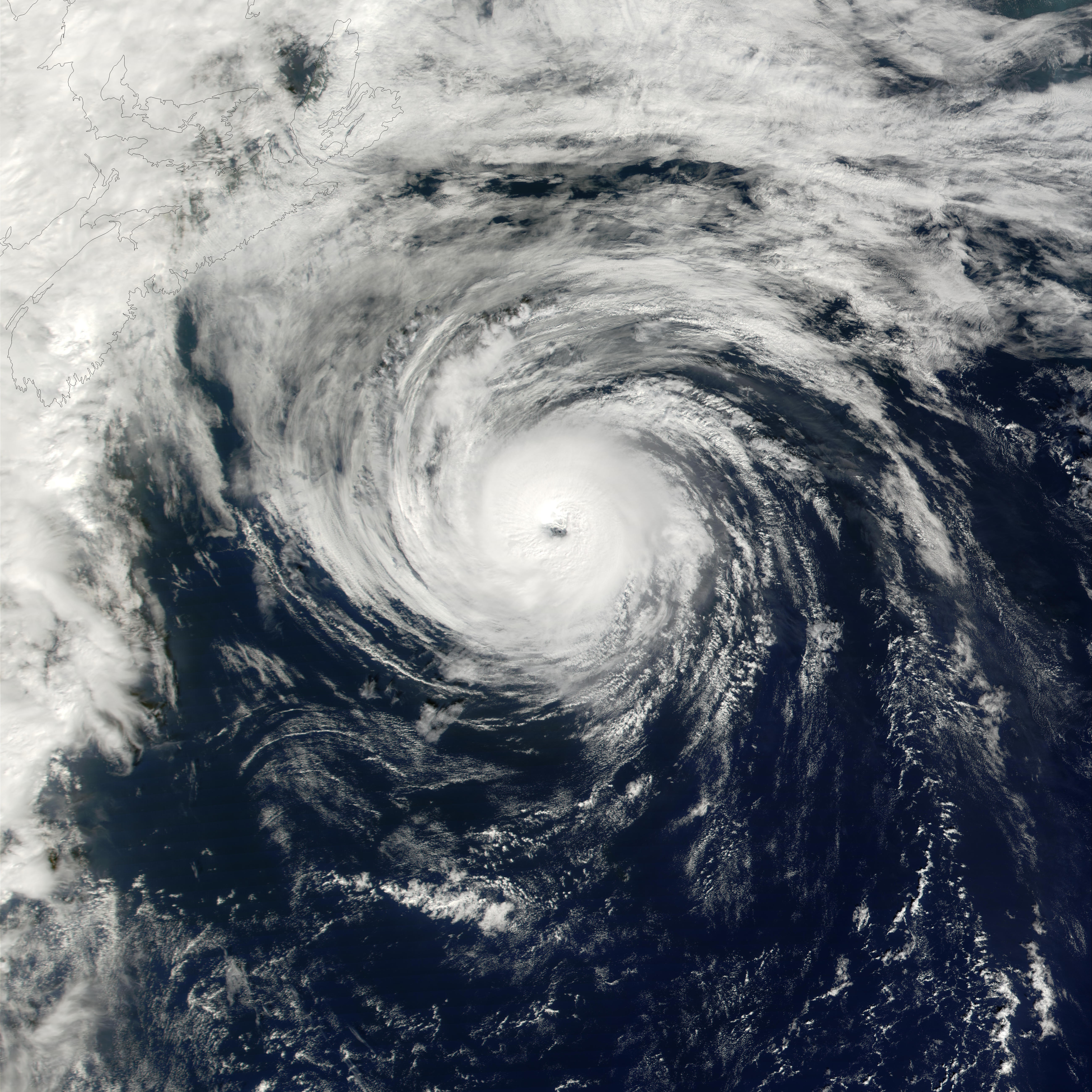 With wind gusts approaching 100 knots, or 127 miles per hour, Hurricane Humberto is shown here just off of the southeastern coast of Nova Scotia. This true-color image was aquired from data collected by MODIS at 14:35 UTC on September 26, 2001, and captures the hurricane before it turned away from Canada and began to head eastward out over the North Atlantic. The storm originated northeast of Puerto Rico on September 21, 2001 as a tropical depression, progressed into a tropical storm, and finally became a hurricane as it moved northward parallel to the eastern seabord of the U.S. Forecasters are projecting that the storm will continue to weaken over the next 24 hours as it continues to track across the Atlantic.